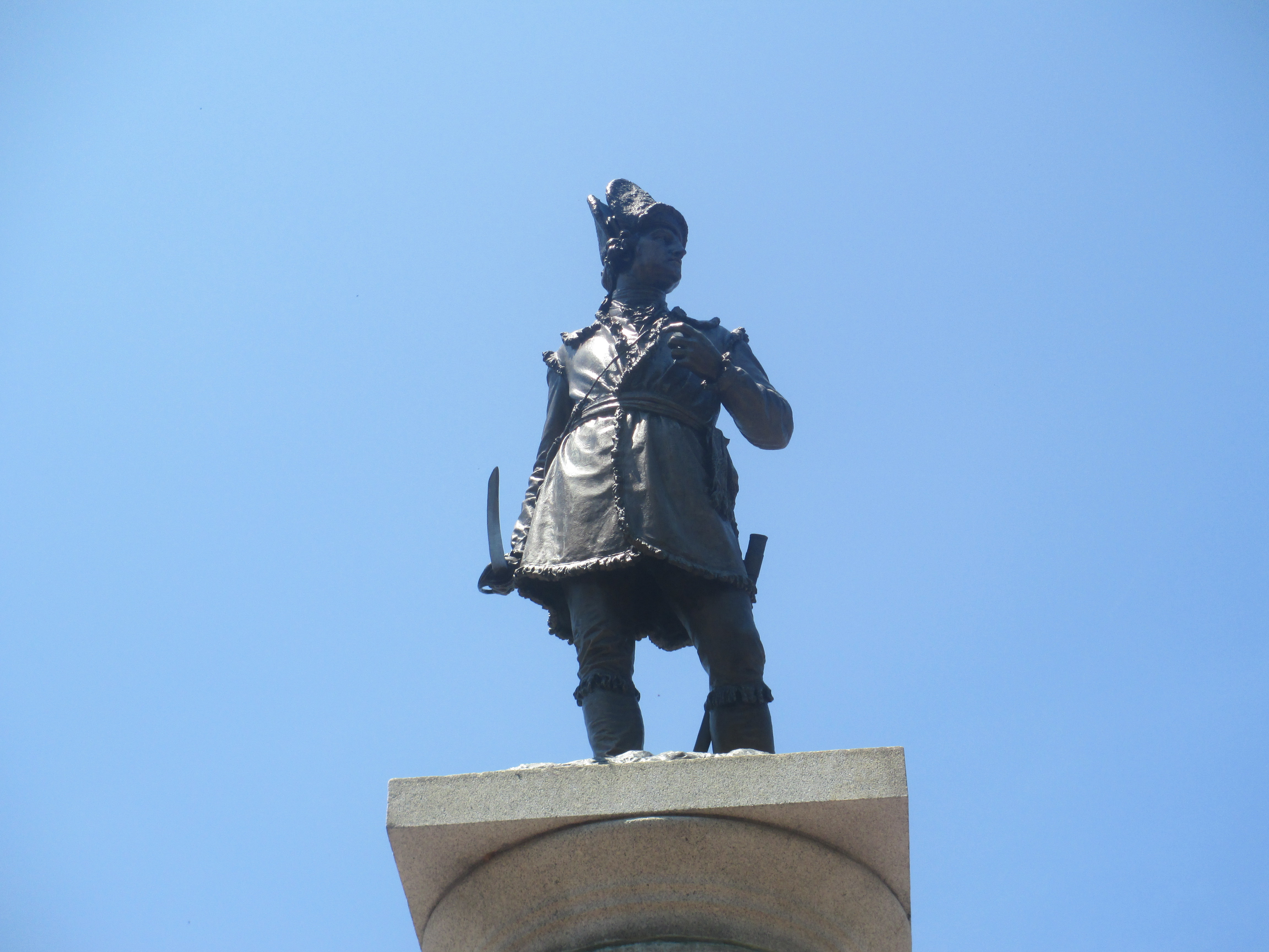 I took photo of General Daniel Morgan in Spartanburg, SC, with Canon camera.